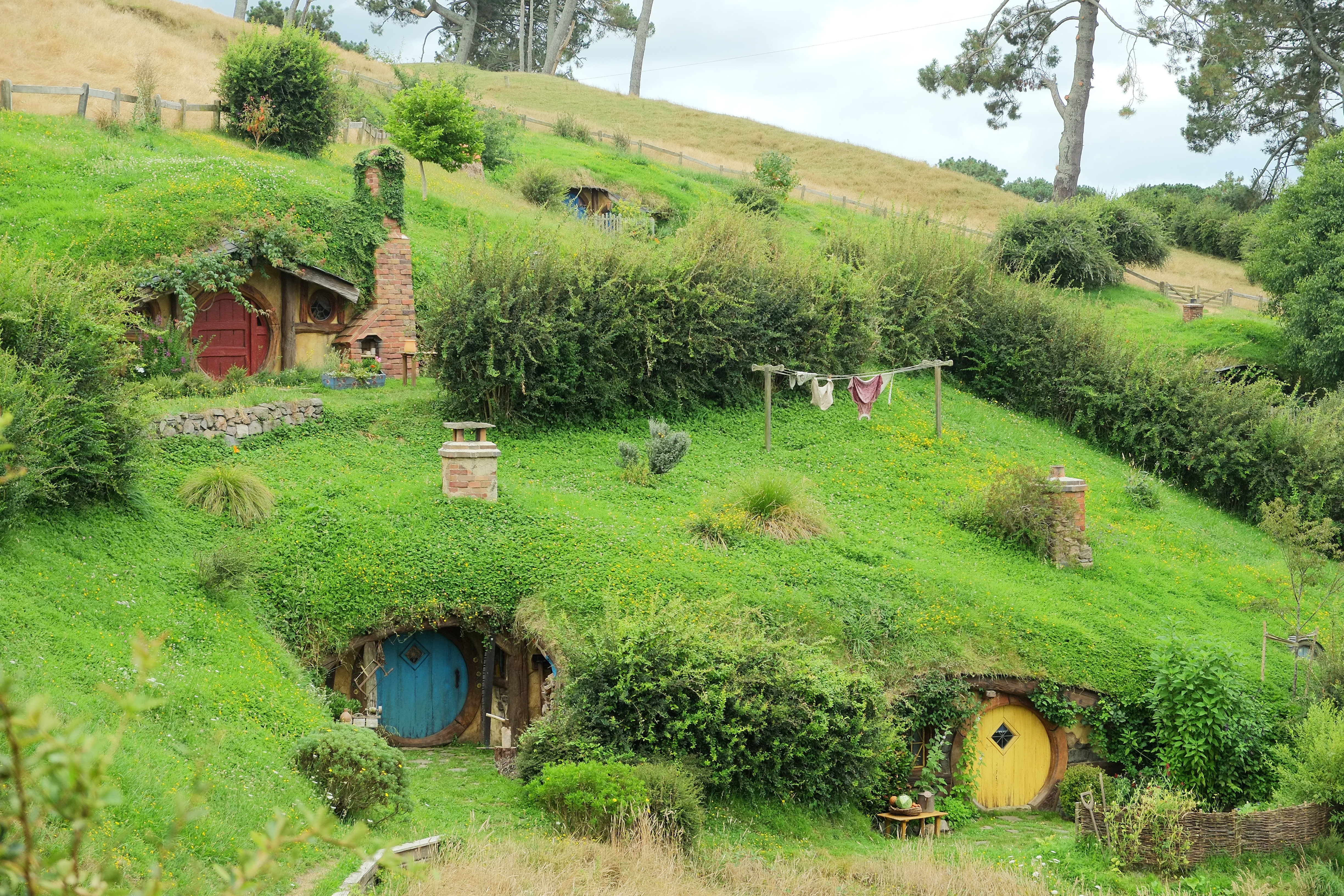 Hillside with hobbit houses, their round entrance doors and chimneys visible as well as a washing line with clothes hung on it (Hobbiton movie set)